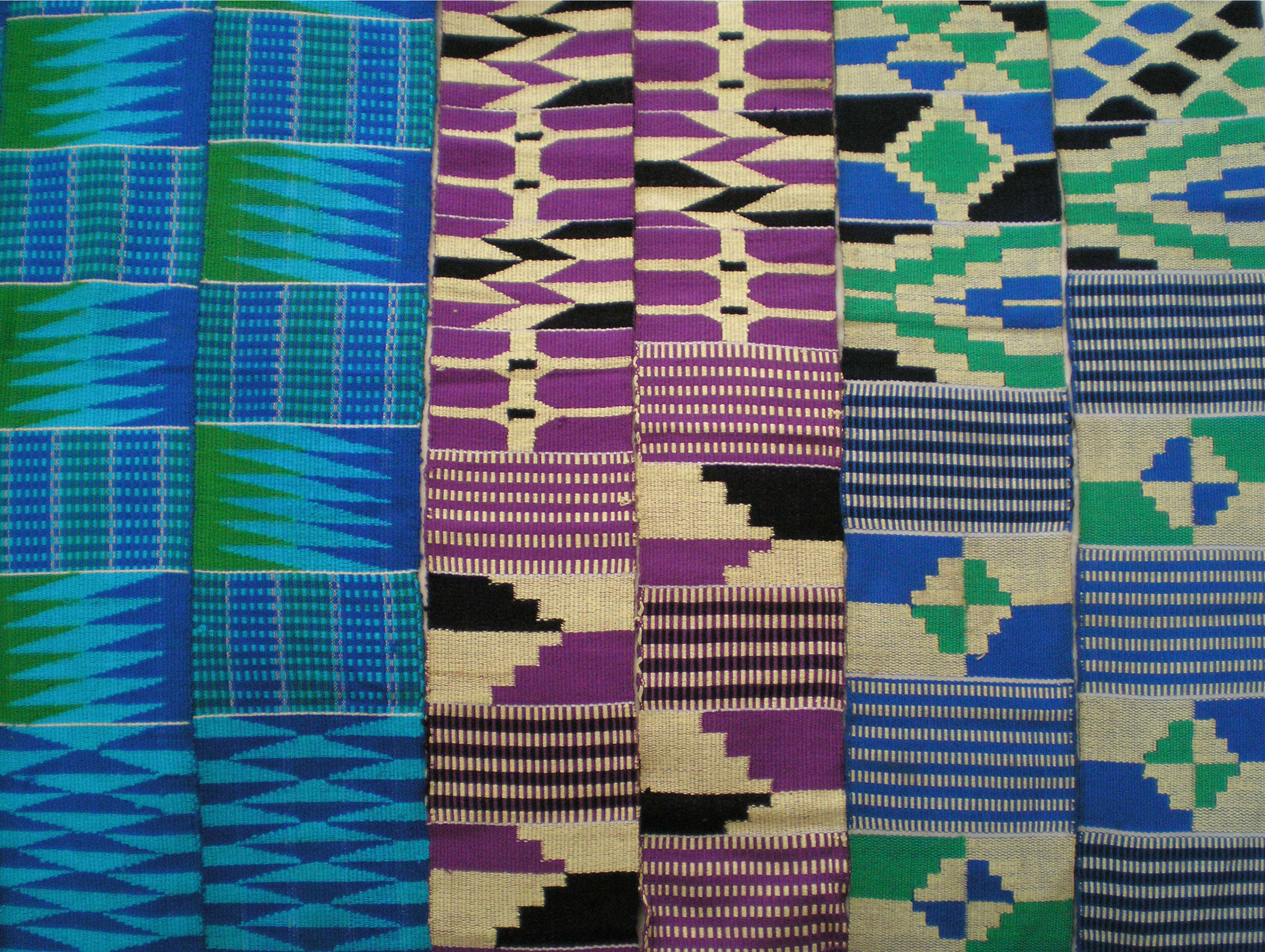 Kente weaving is a traditional craft among the Ashanti and Ewe people of Ghana. A kente cloth is sewn together from many narrow (about 10 cm wide) kente stripes. The picture shows 3 different typical Ewe kente stripes. Additional information about kente cloth can be found on